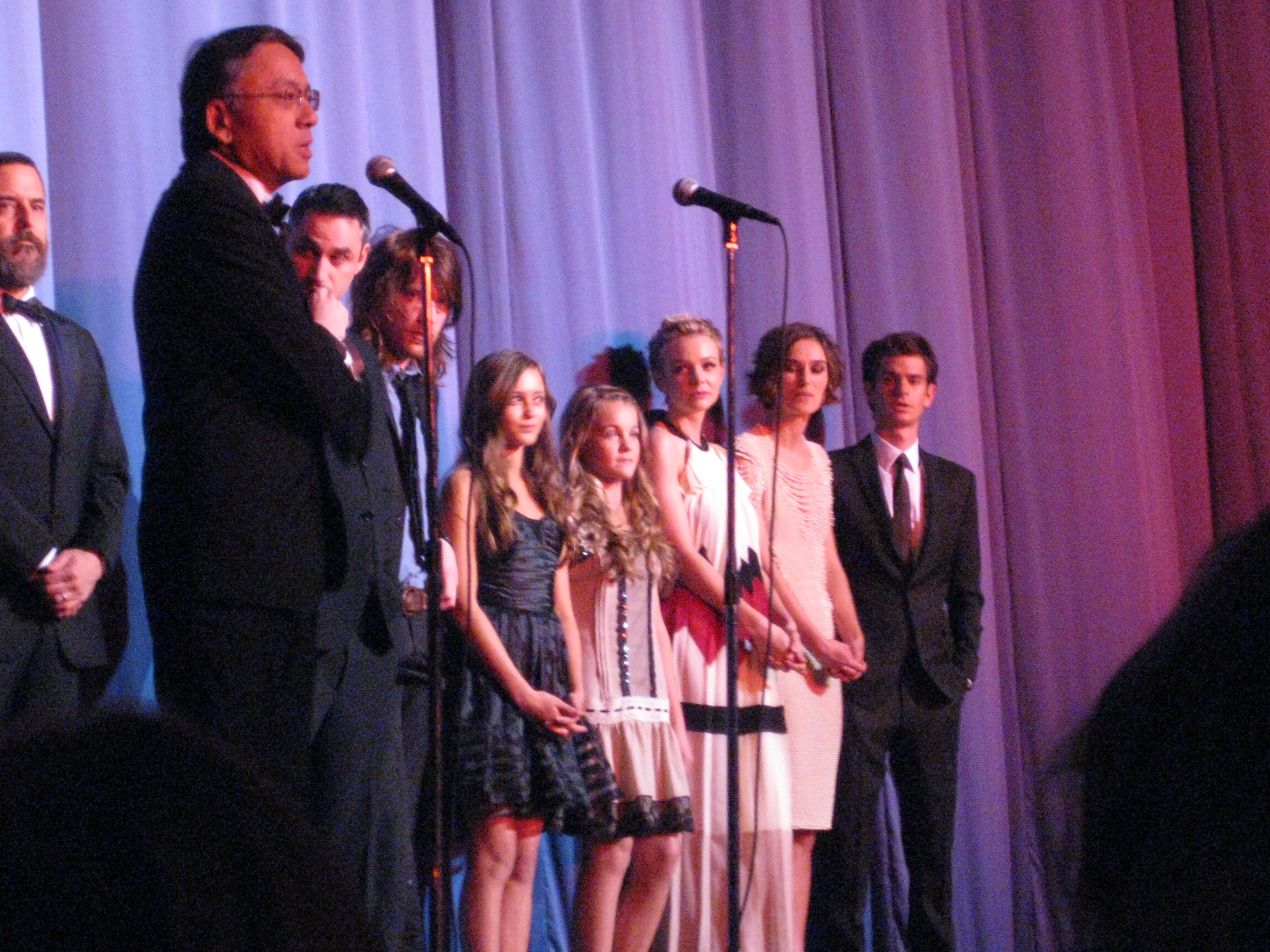 Director Mark Romanek with author Kazuo Ishiguro and several Never Let Me Go cast members on October 13, 2010